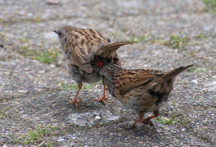 Dunnocks, Prunella modularis, cloaca-pecking before mating